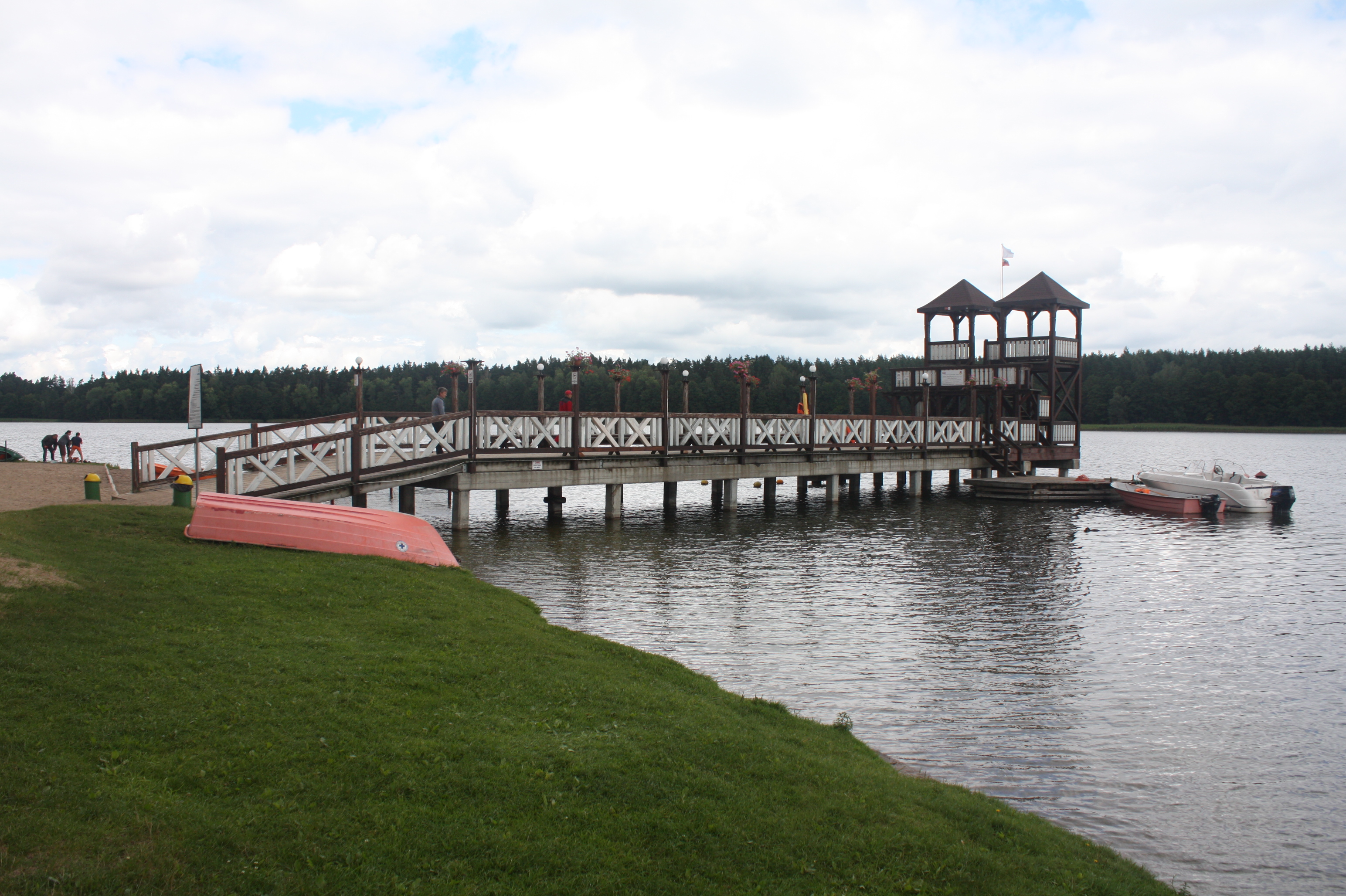 This photo of Warmian-Masurian Voivodeship was taken during Wikiexpedition 2012 set up by Wikimedia Polska Association. You can see all photographs in category Wikiekspedycja 2012. The making of this document was supported by Wikimedia Polska.